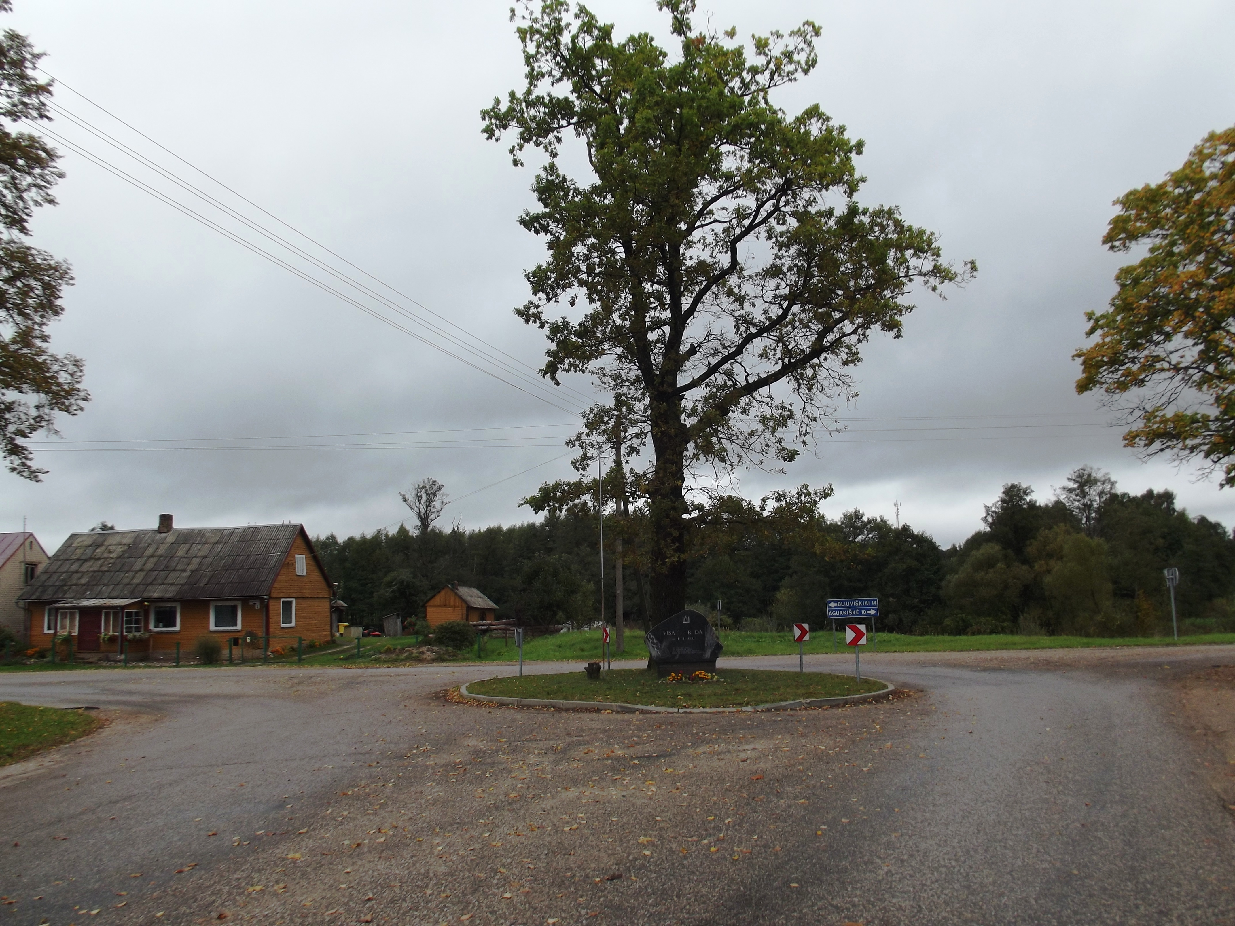 Višakio Rūda, Kazlų Rūda municipality, Lithuania